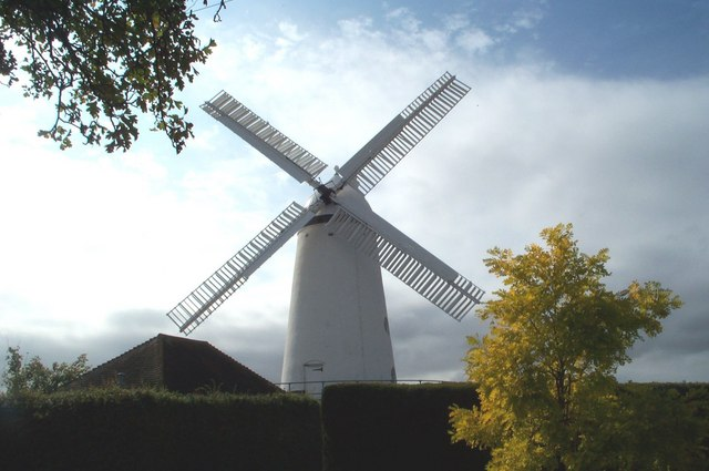 Photograph of Stone Cross windmill